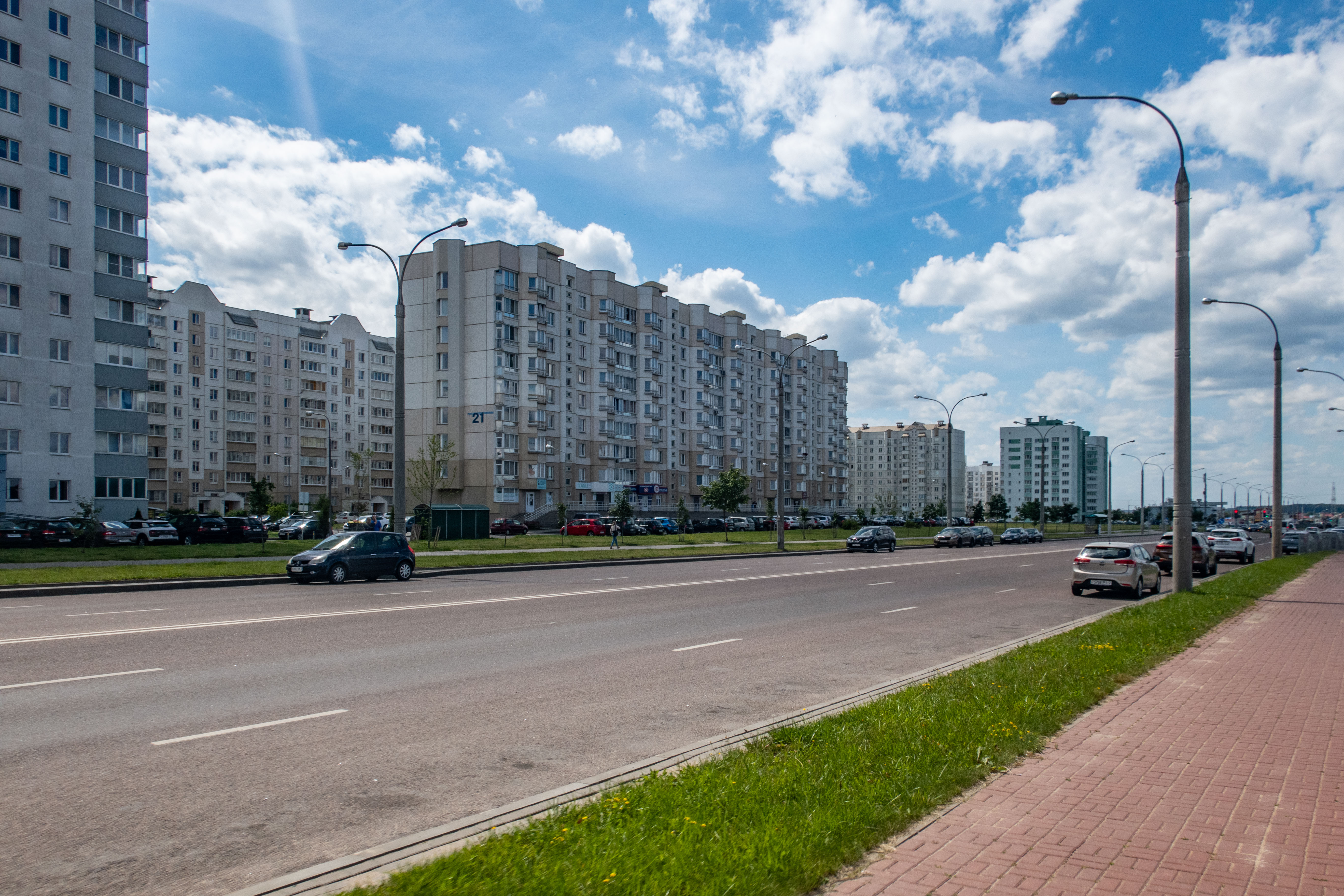 Kazimiraŭskaja street. Minsk, Belarus